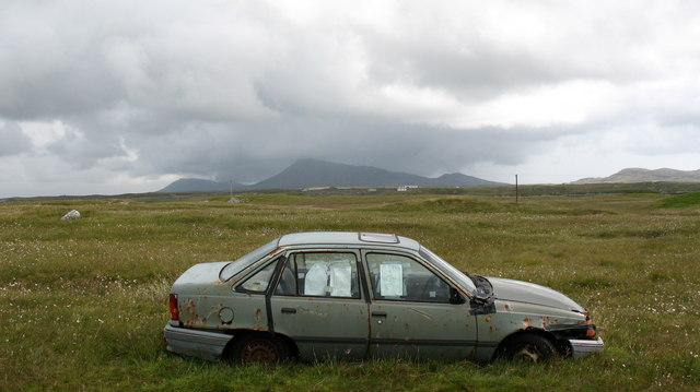 Tourist Information with a difference. There are far too many abandoned vehicles scattered across the Western Isles, but at least this old Vauxhall has been put to good use. Taped to the windows are helpful instructions as to where the local seal colony can be found.